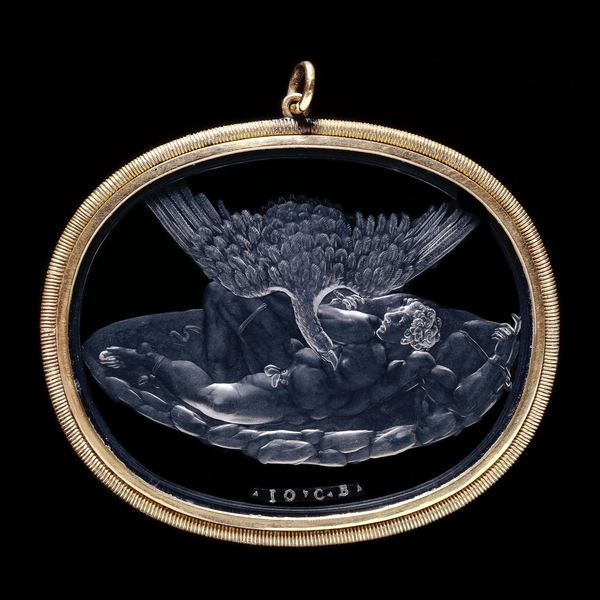 Intaglio — 'The Punishment of Tityus'. A rock crystal intaglio by Giovanni Bernardi. Room 46, Department of Coins and Medals, British Museum